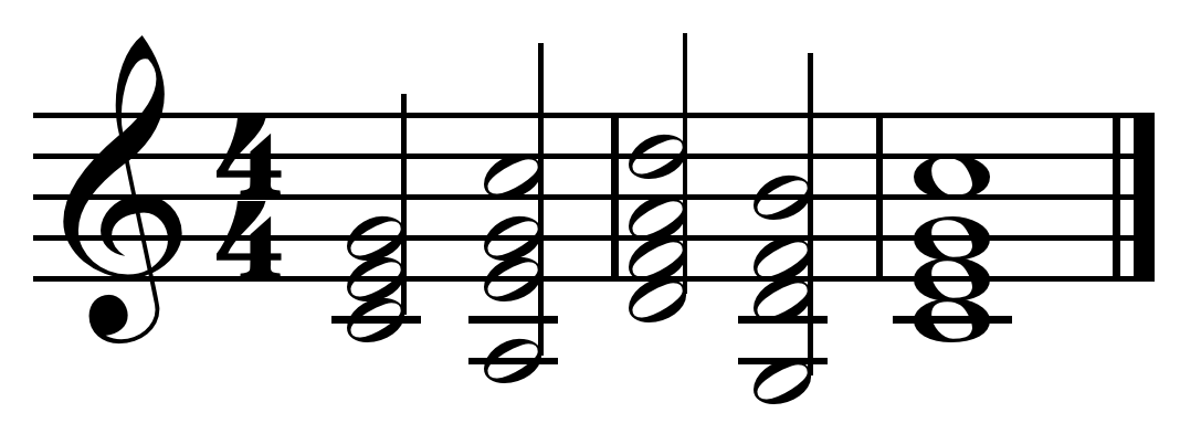 I-vi-ii-V turnaround in C. Created by Hyacinth (talk) using Sibelius 5.